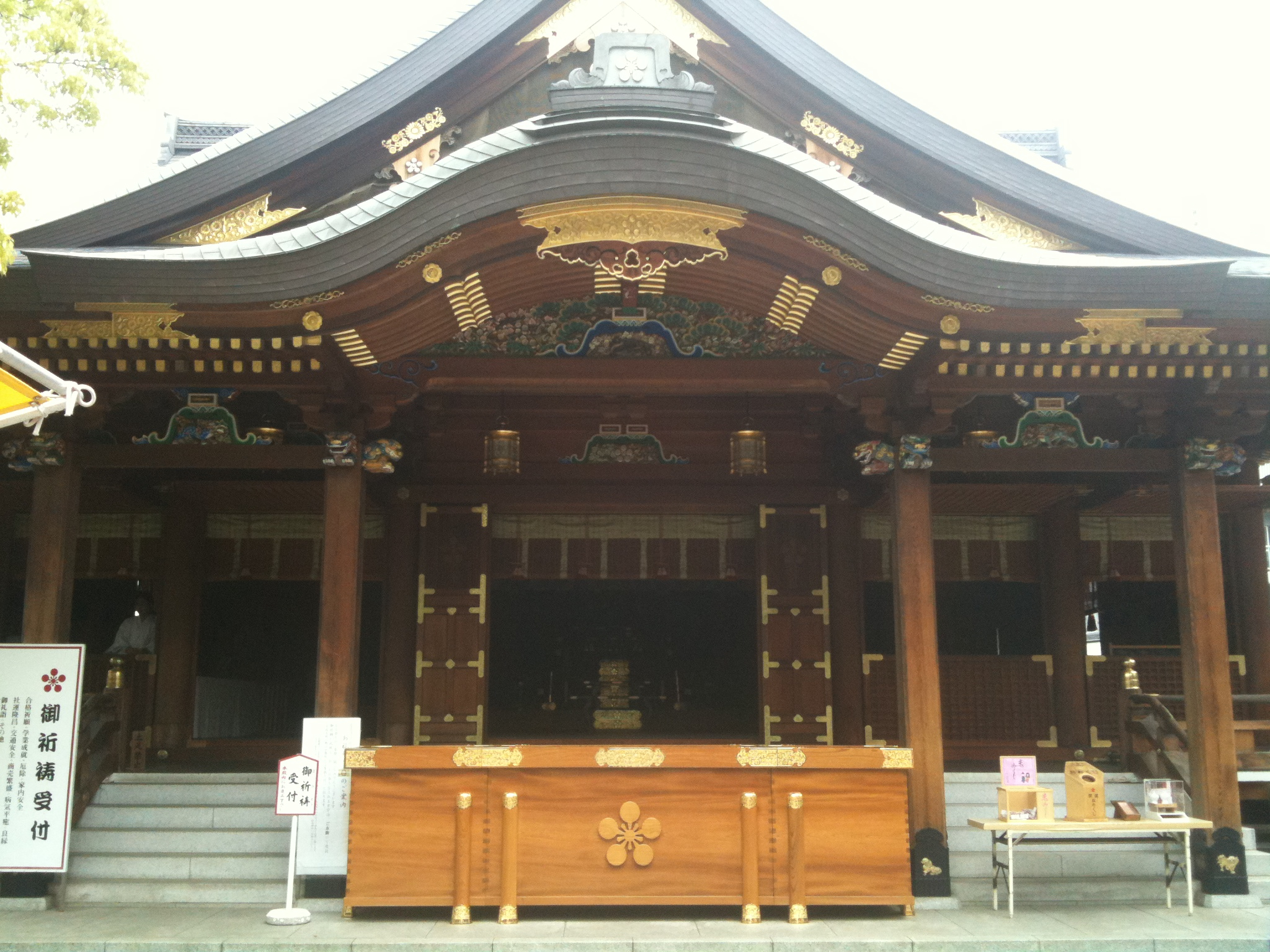 The main altar at Yushima Tenmangu Shrine in Tokyo, Japan.